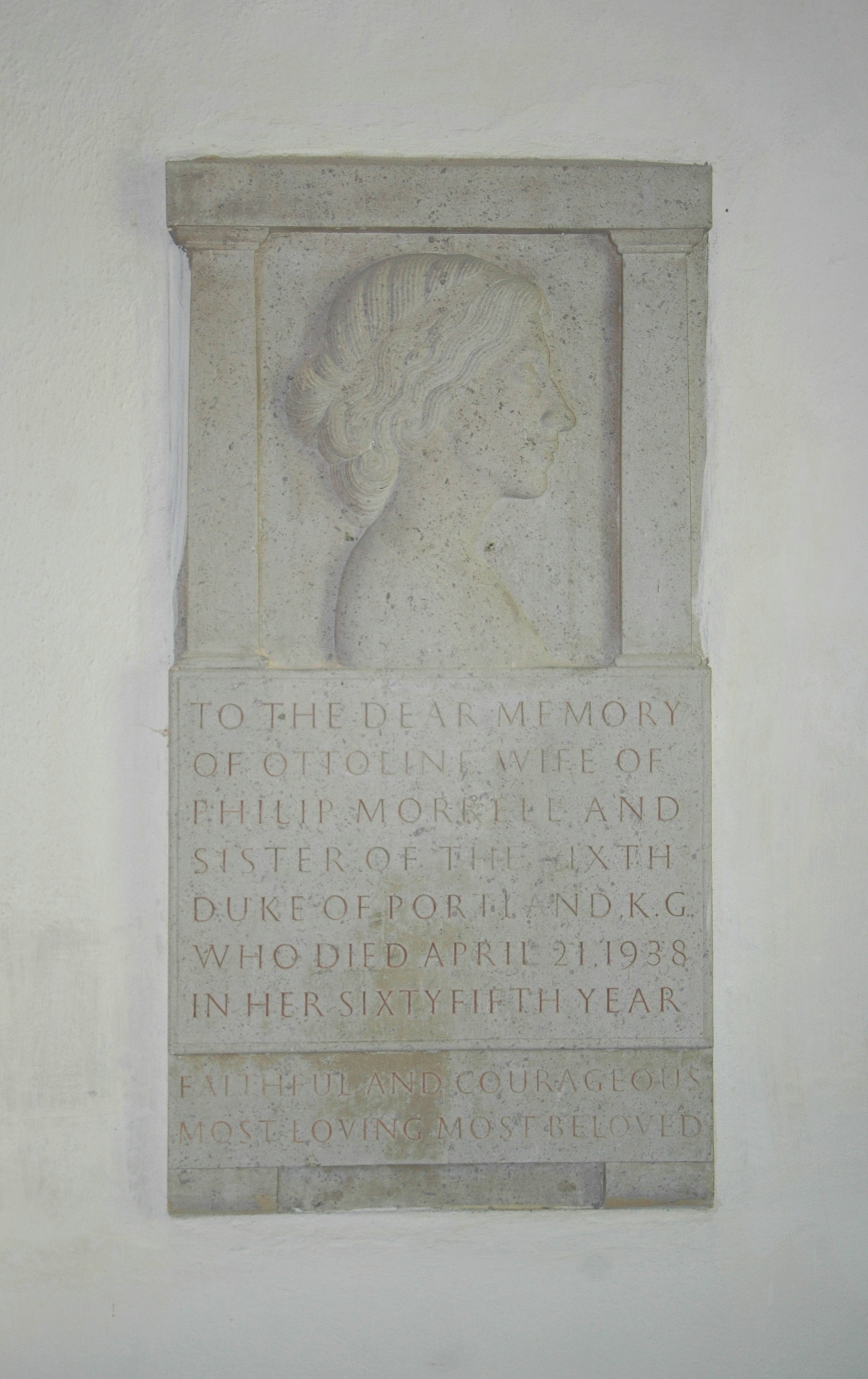 Church of England parish church of St Mary, Garsington, Oxfordshire: monument in the south aisle to Lady Ottoline Morrell (died 1938) - Text on Monument reads: TO THE DEAR MEMORY OF OTTOLINE WIFE OF PHILIP MORRELL AND SISTER OF THE SIXTH DUKE OF PORTLAND.K.G. WHO DIED APRIL 21, 1938 IN HER SIXTY FIFTH YEAR FAITHFUL AND COURAGEOUS MOST LOVING MOST BELOVED